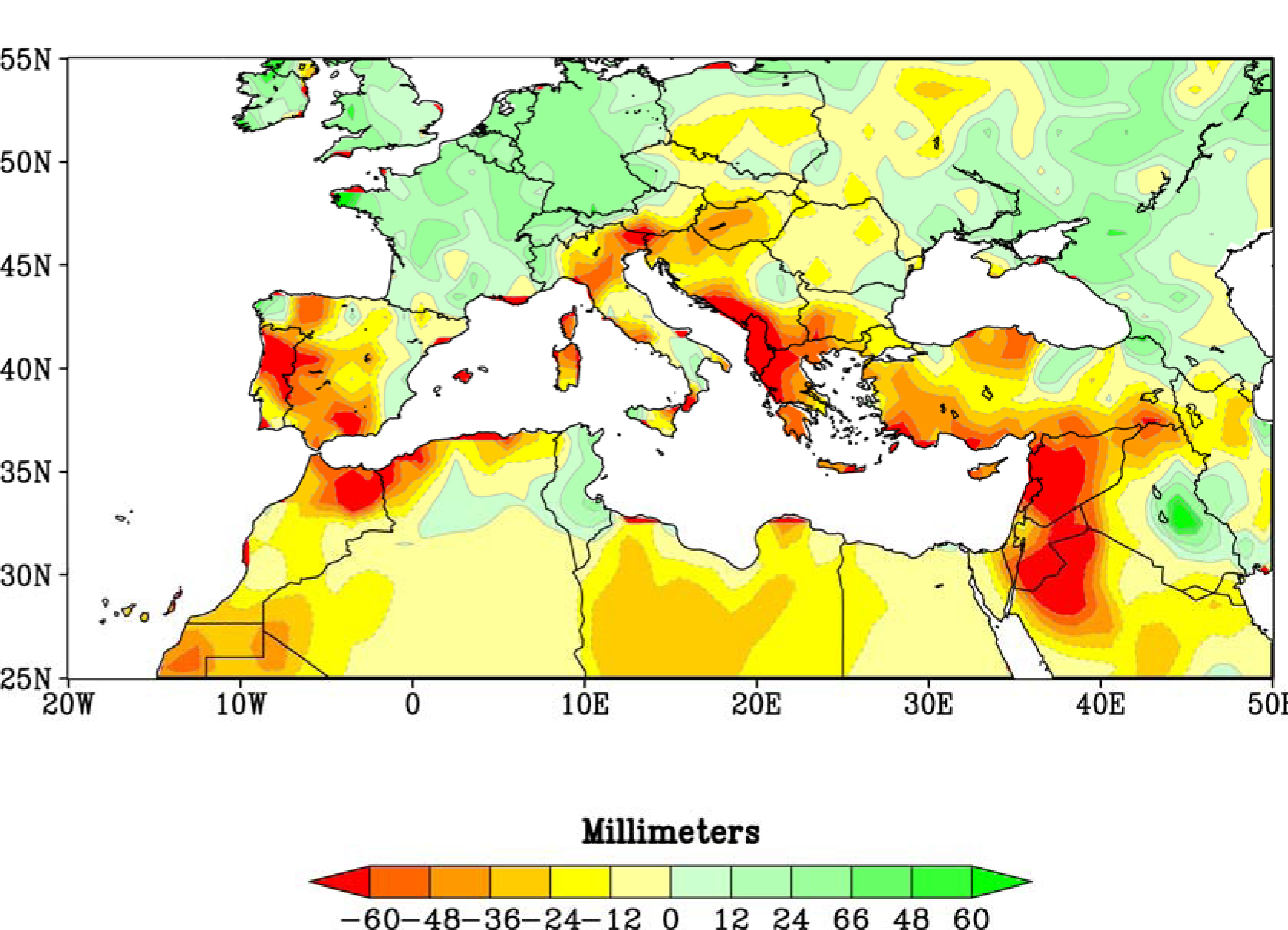 Reds and oranges highlight lands around the Mediterranean that experienced significantly drier winters during 1971-2010 than the comparison period of 1902-2010.